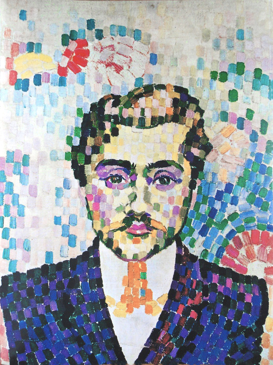 This is a portrait of Jean Metzinger painted by Robert Delaunay